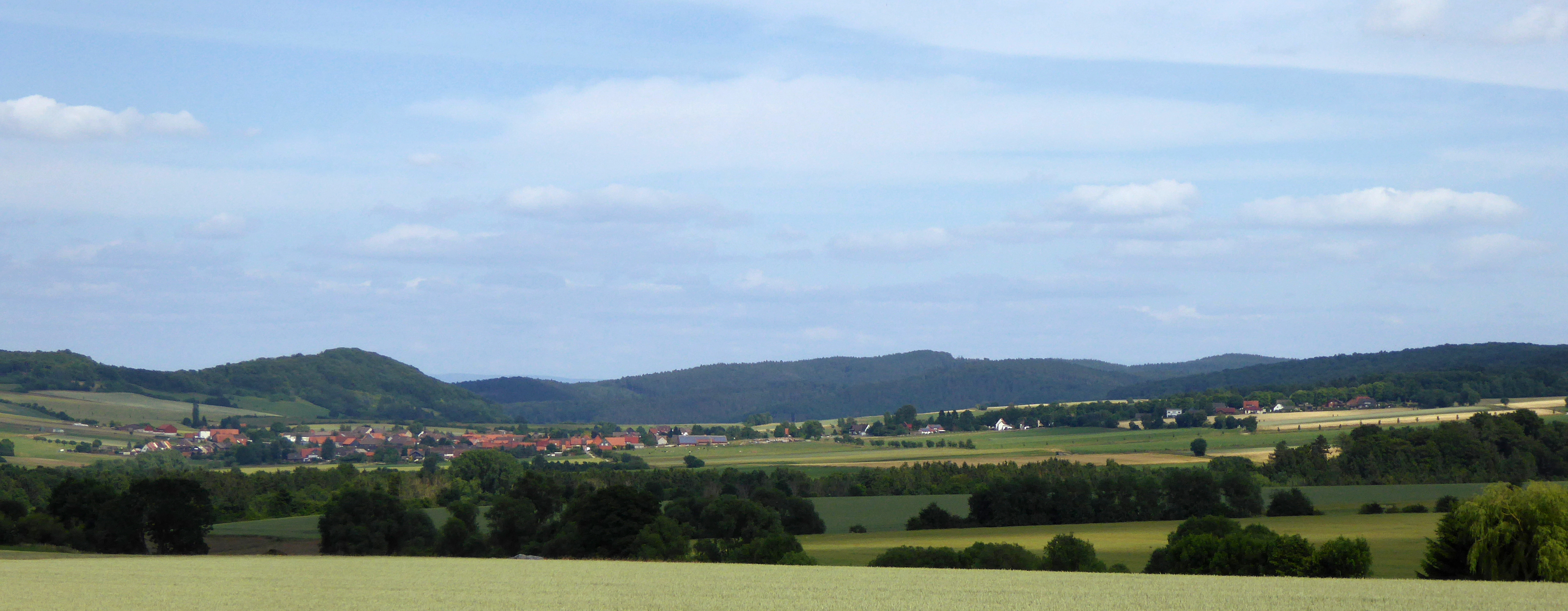 Blick von Westen von Sievershausen auf Hilwartshausen, Stadt Dassel, Niedersachsen.